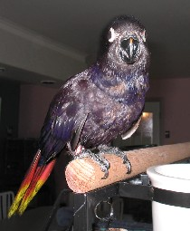 Black Lory photo de lori noir